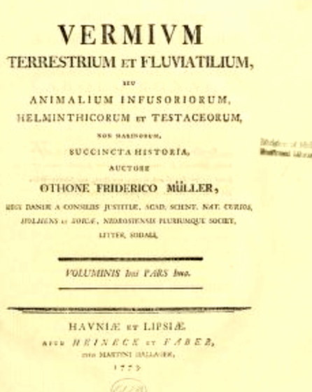 Title page of "Vermivm terrestrium et fluviatilium, seu, Animalium infusoriorum, helminthicorum et testaceorum, non marinorum, succincta historia / auctore Othone Friderico Müller", by: Müller, Otto Frederik:; Publication : et Lipsiae :apud Heineck et Faber :1773-1774.